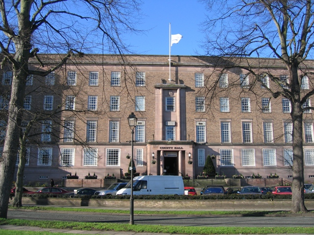 Cheshire County Council's County Hall Whatever the official reason for the Cheshire County flag flying at half mast, it seems appropriate given the government's recent and unfathomable decision to split the county in two.